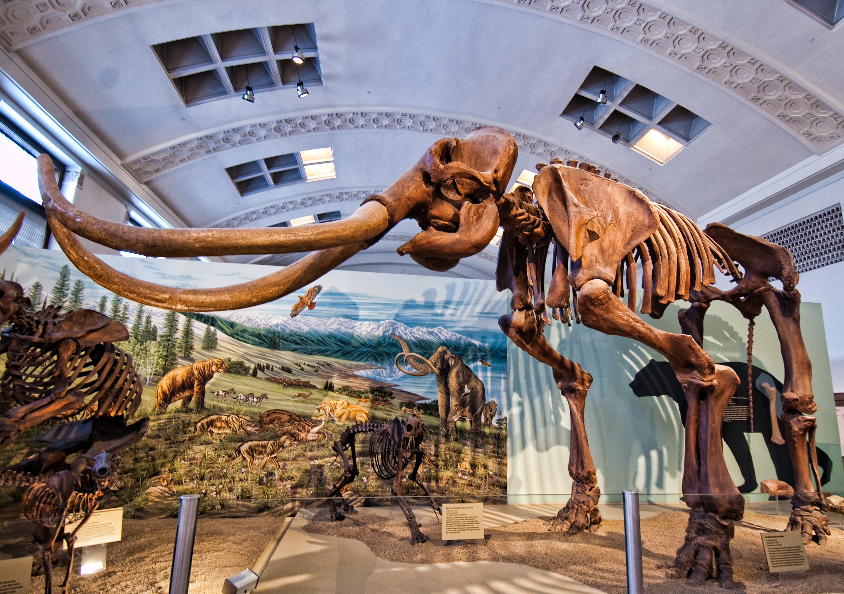 Mounted skeleton (in this instance, a cast) of a Columbian mammoth (Mammuthus columbi) in the old building of the "Utah Museum of Natural History", nowadays renamed as the "Natural History Museum of Utah" and since 2011 relocated in the Rio Tinto Center, in Salt Lake City (Utah).